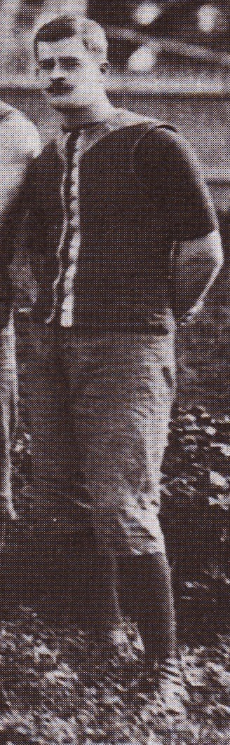 Stanley Spencer Reid (1872-1901)